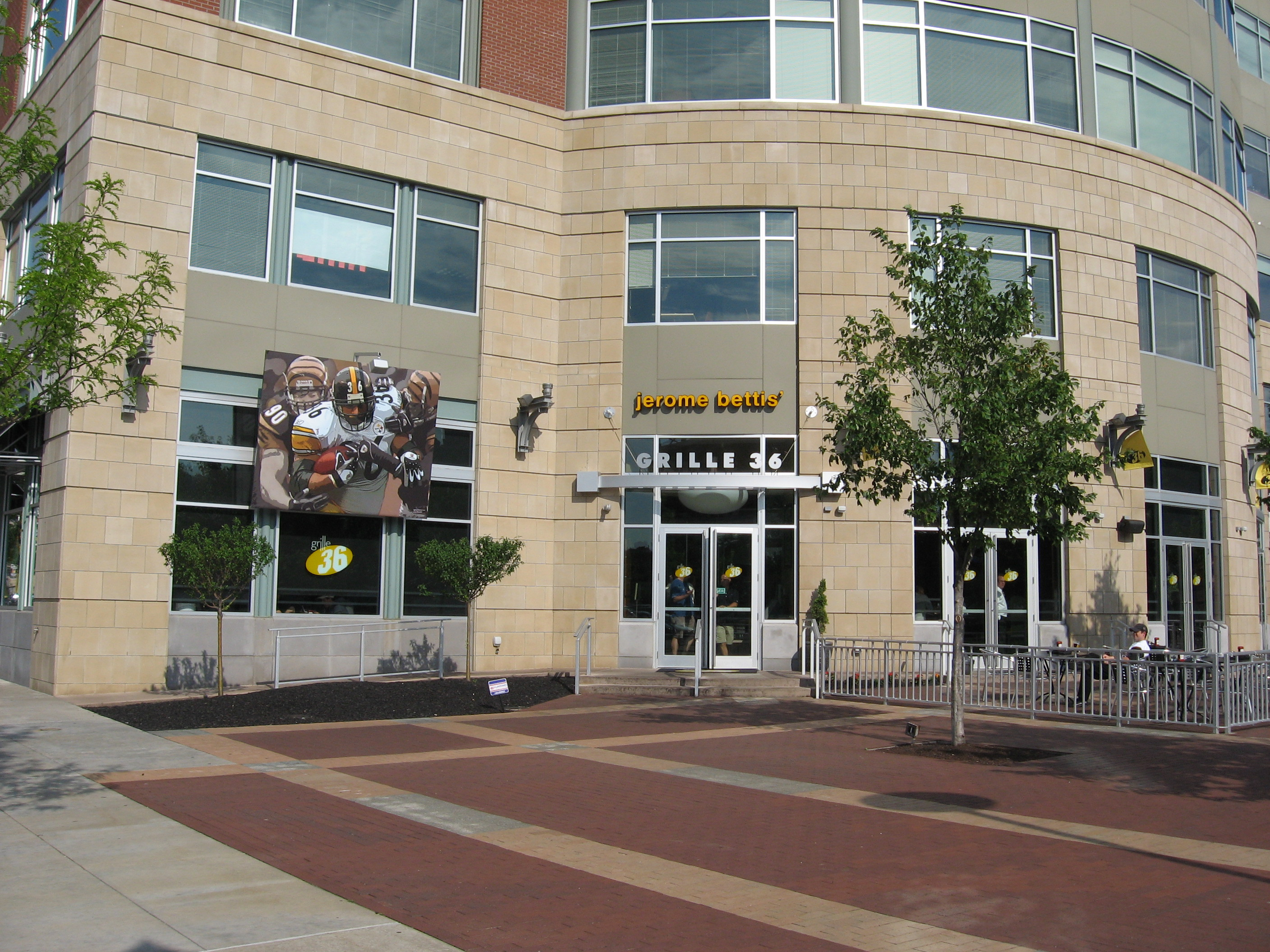 Former football player Jerome Bettis' bar, the Grille 36 (a reference to his football number) in the DelMonte building on the North Shore, near Heinz Field.40°26′44.2″N 80°0′41.8″W / 40.445611°N 80.011611°W